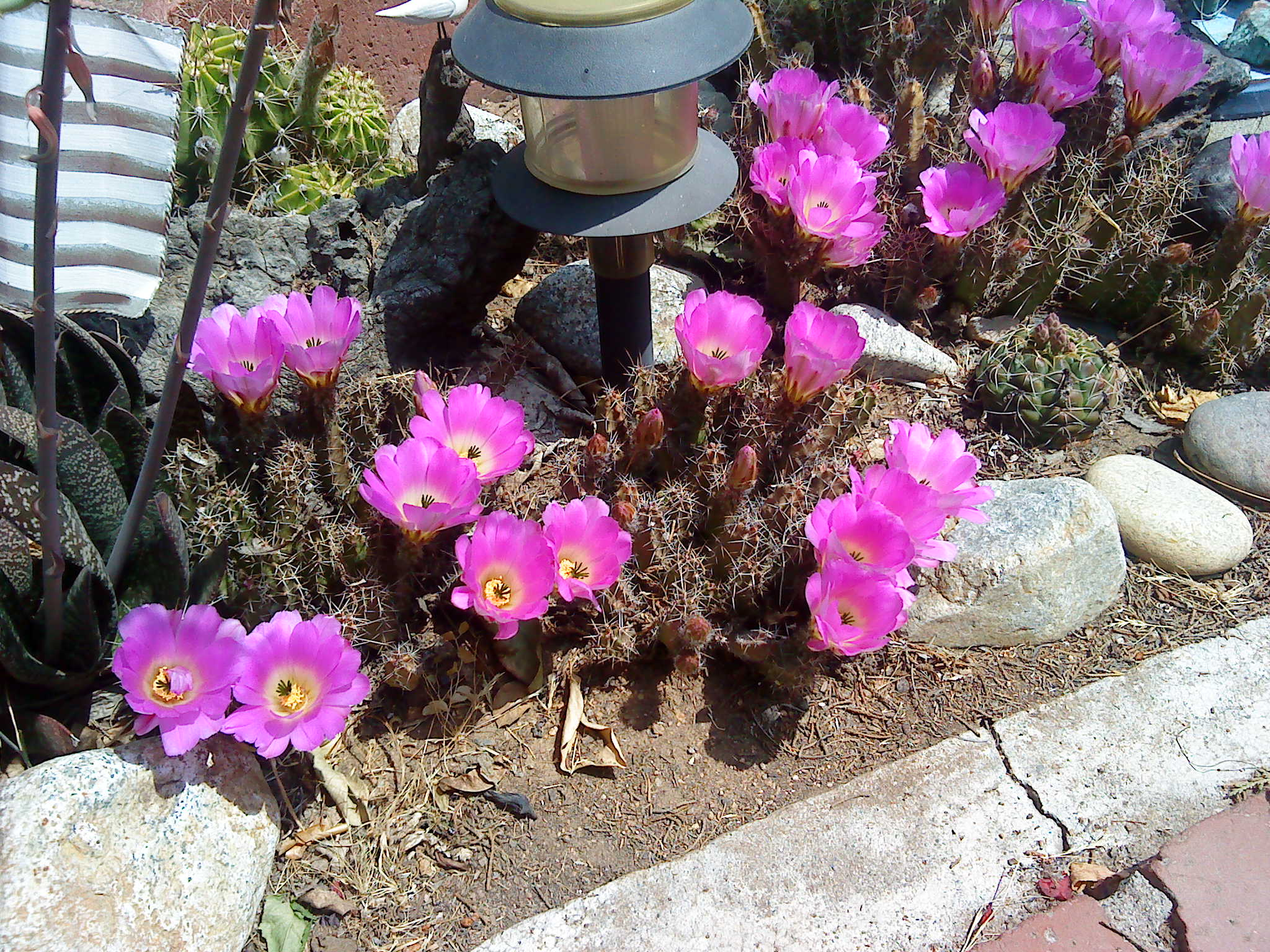 Picture of colorful cacti taken in my own yard.